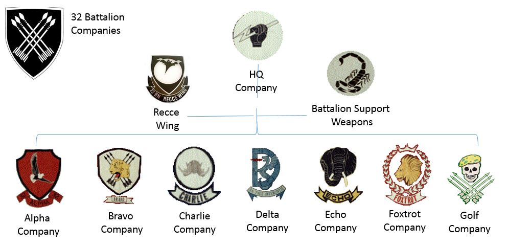 32 Battalion Structure